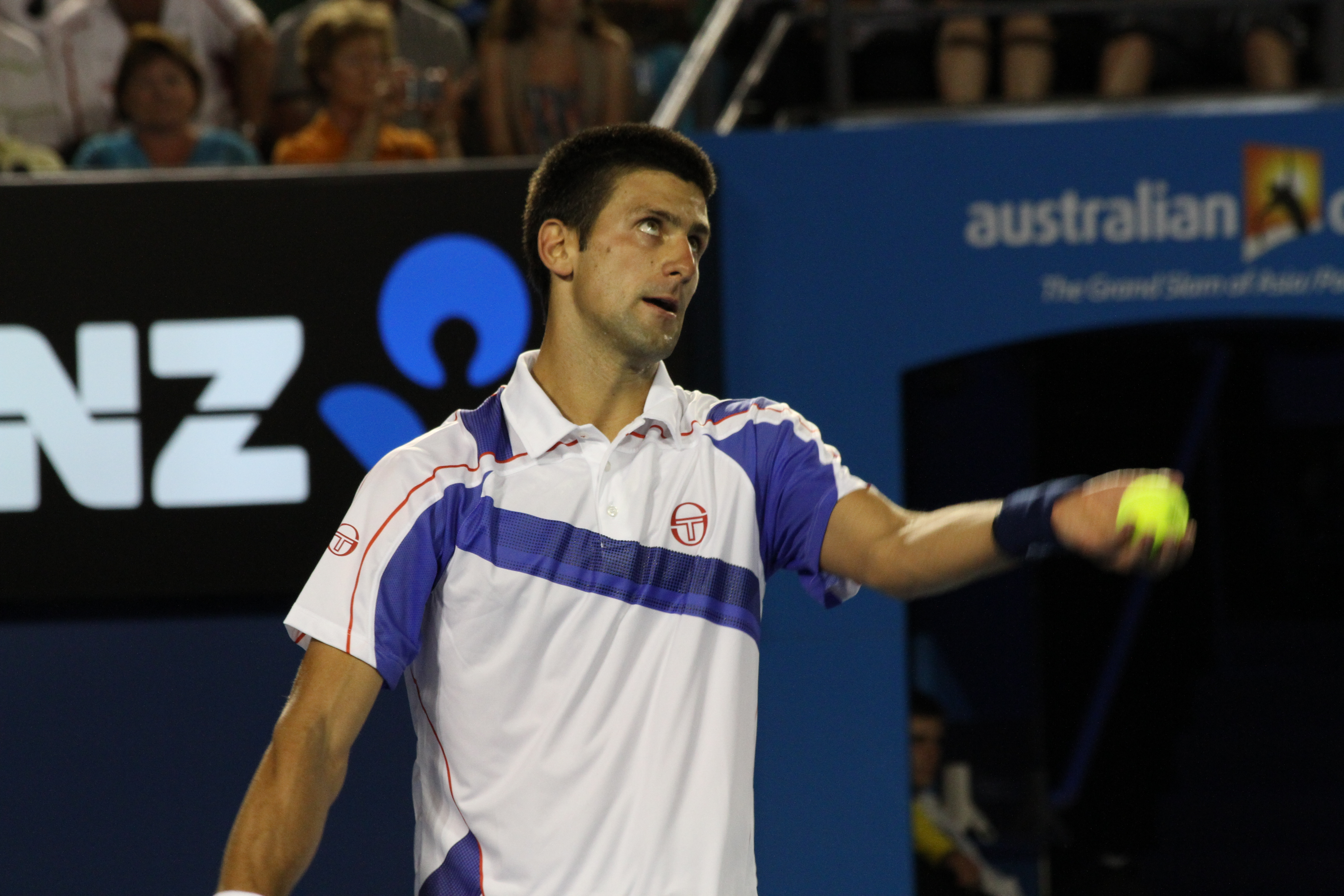 Novak Djokovic at the 2011 Au stralian Open